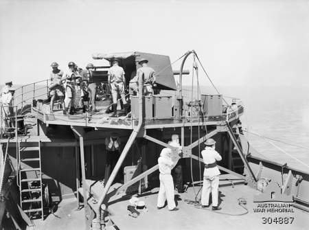 AWM caption : PRACTICE FIRING WITH THE 4 INCH GUN ABOARD THE AUXILIARY ANTI SUBMARINE VESSEL HMAS WILCANNIA (EX WYRALLAH). THE GUN HAS JUST BEEN FIRED AND IS AT FULL RECOIL. NOTE THE NET TO CATCH THE USED CARTRIDGE CASES EJECTED FROM THE BREECH AND THE SHELLS IN THE READY USE AMMUNITION RACKS BEHIND THE GUN.